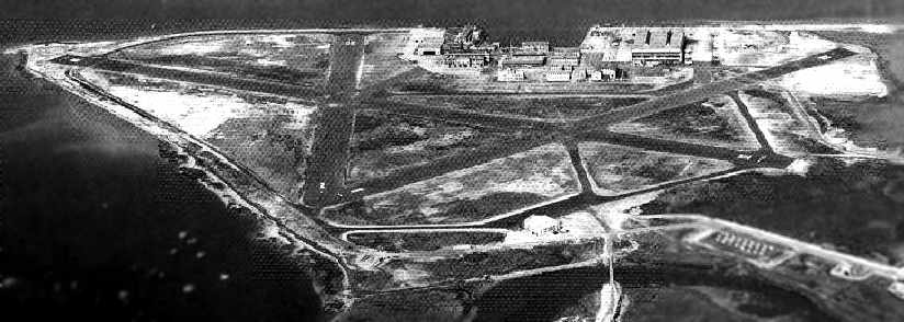 The U.S. Navy Naval Air Station Squantum, near Quincy, Massachusetts (USA), during the Second World War.